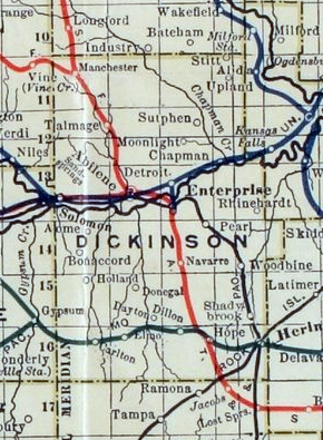 Stouffer's Railroad Map of Kansas, 1915-1918, Dickinson County.